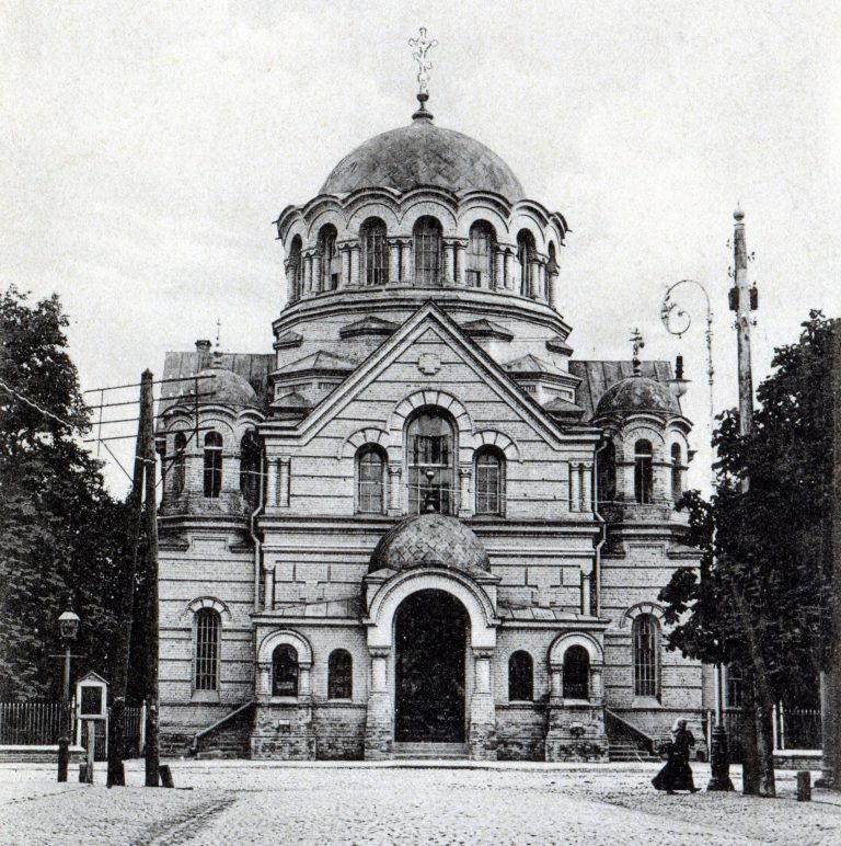 The St. Аlexander Nevsky church in Kiуv. Demolished by the bolsheviks in the 1930-s